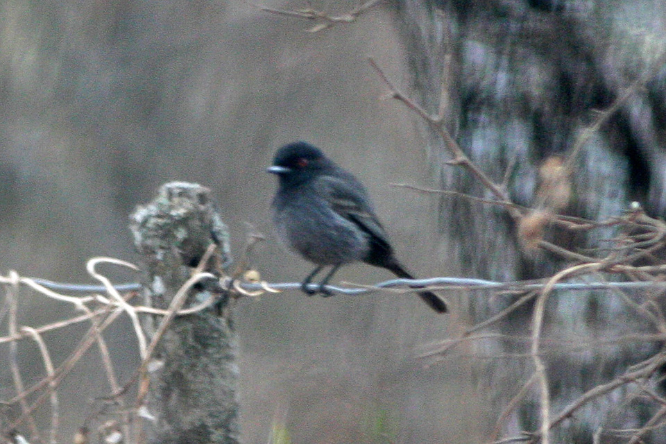 Cinereous Tyrant (Knipolegus striaticeps), Ledesam to Las Lajites, Argentina